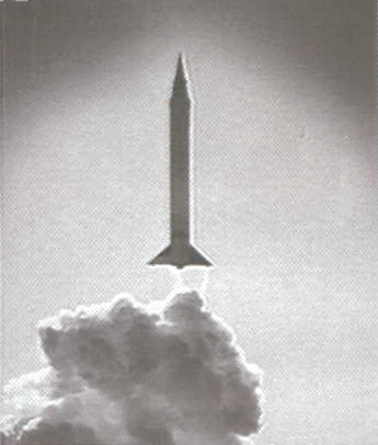 Viking rocket #12